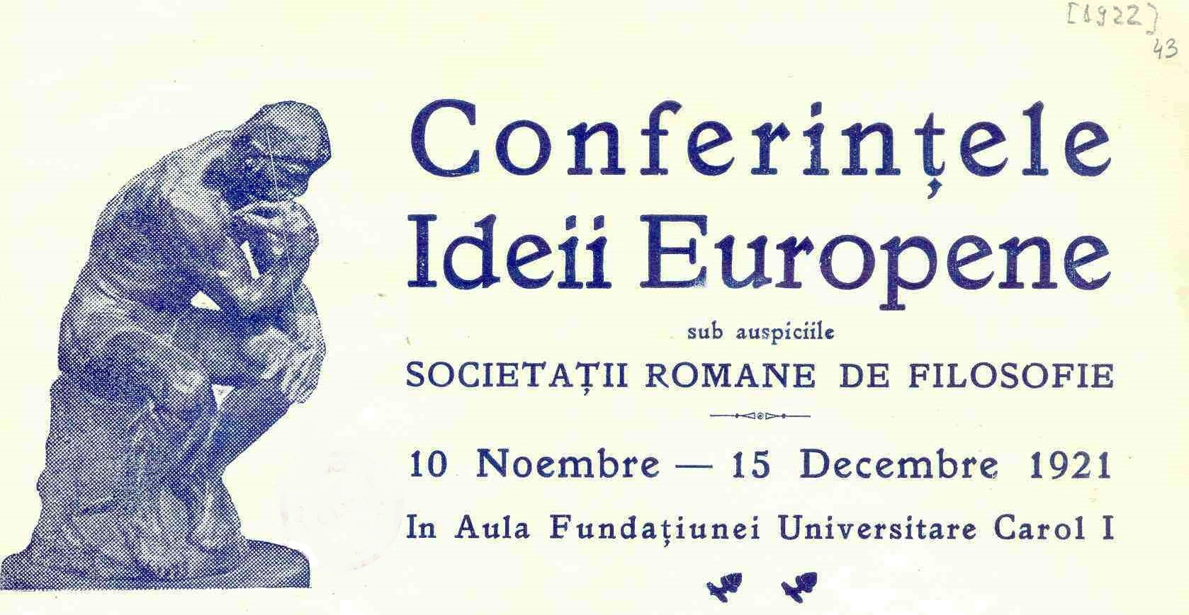 Letterhead for an invitation to the Ideea Europeană and Romanian Philosophical Society Conference of November 15 - December 15, 1921, in Bucharest (organizer: Constantin Rădulescu-Motru). From an invitation addressed by Constantin Beldie to Emil Isac (the date "1922", in the top-half corner, probably indicates when the letter was filed by Isac).